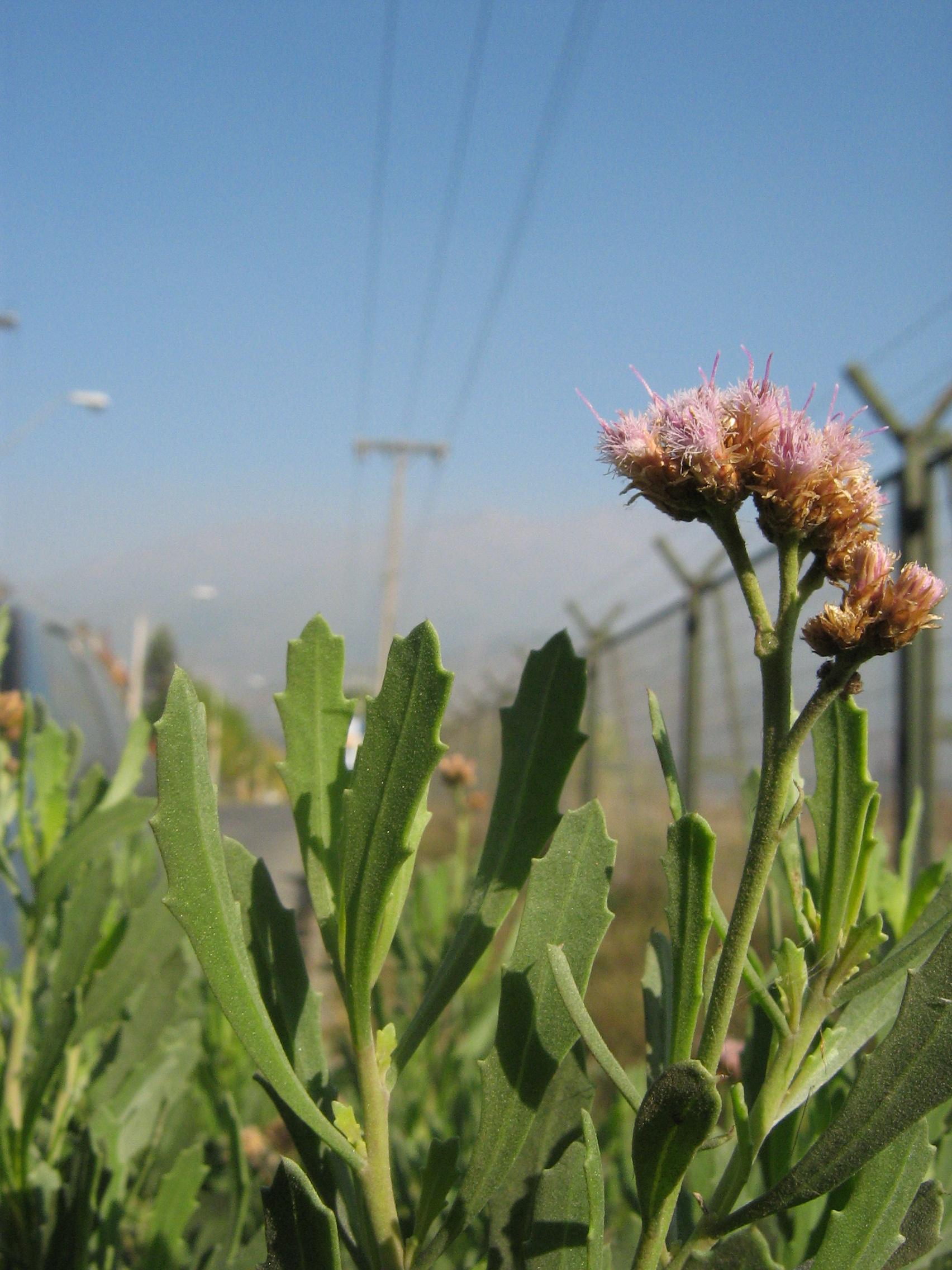 Tessaria absinthioides, n.v. brea